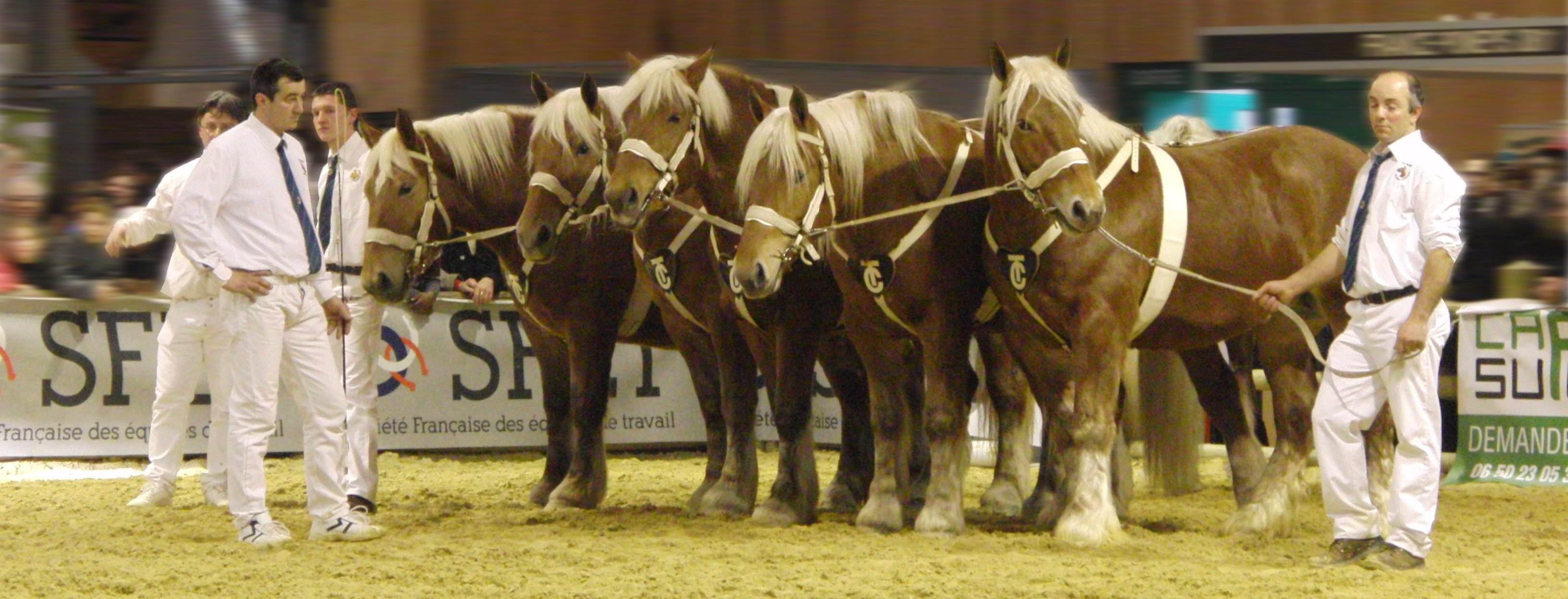 Comtois horses at the 2014 International Agriculture Show in Paris, France